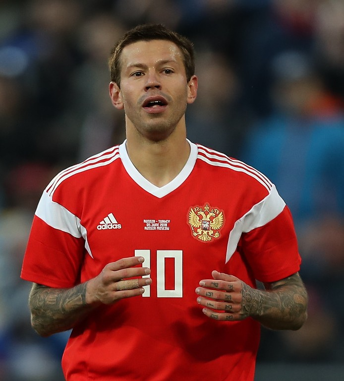 Fyodor Smolov